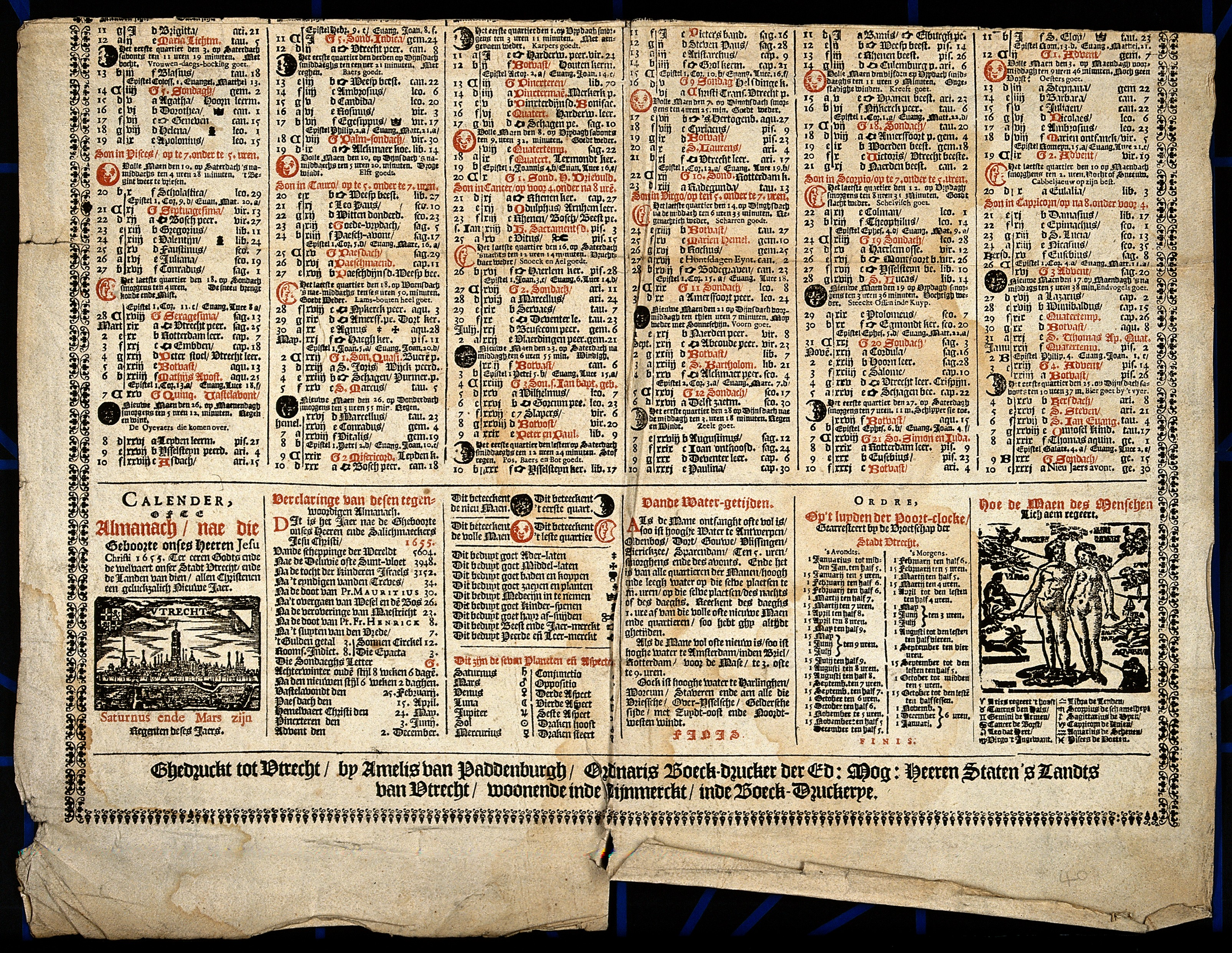 Astrology: an almanac for Utrecht for 1655. Letterpress with woodcuts, 1654. Iconographic Collections